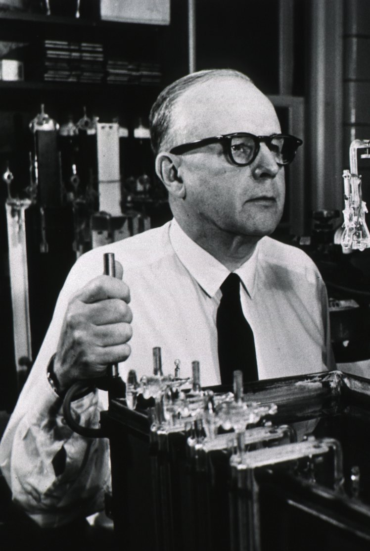 Dean Burk, American biochemist who co-discovered biotin.